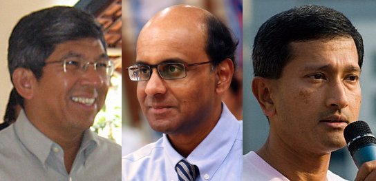 Three members of the Cabinet of Singapore in the 11th Parliament from minority communities in Singapore that were elected in Group Representation Constituencies (GRCs): from left to right, Yaacob Ibrahim, Minister for the Environment and Water Resources and Minister-in-charge of Muslim Affairs and Member of Parliament (MP) for Jalan Besar GRC; Tharman Shanmugaratnam, Minister for Finance and MP for Jurong GRC; and Vivian Balakrishnan, Minister for Community Development, Youth and Sports and MP for Holland–Bukit Timah GRC.